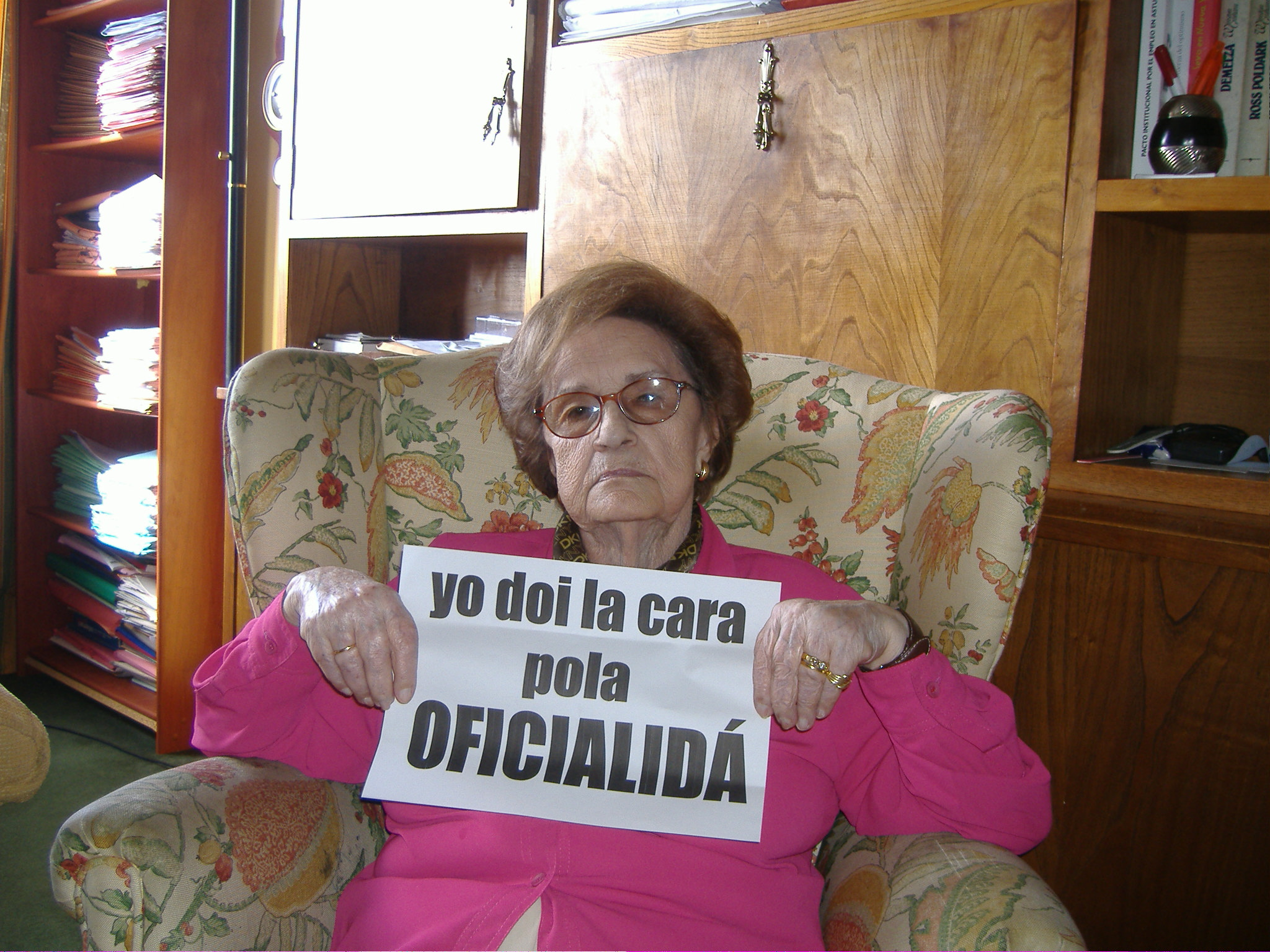 Corin Tellado supporting an internet claim for the asturian language.